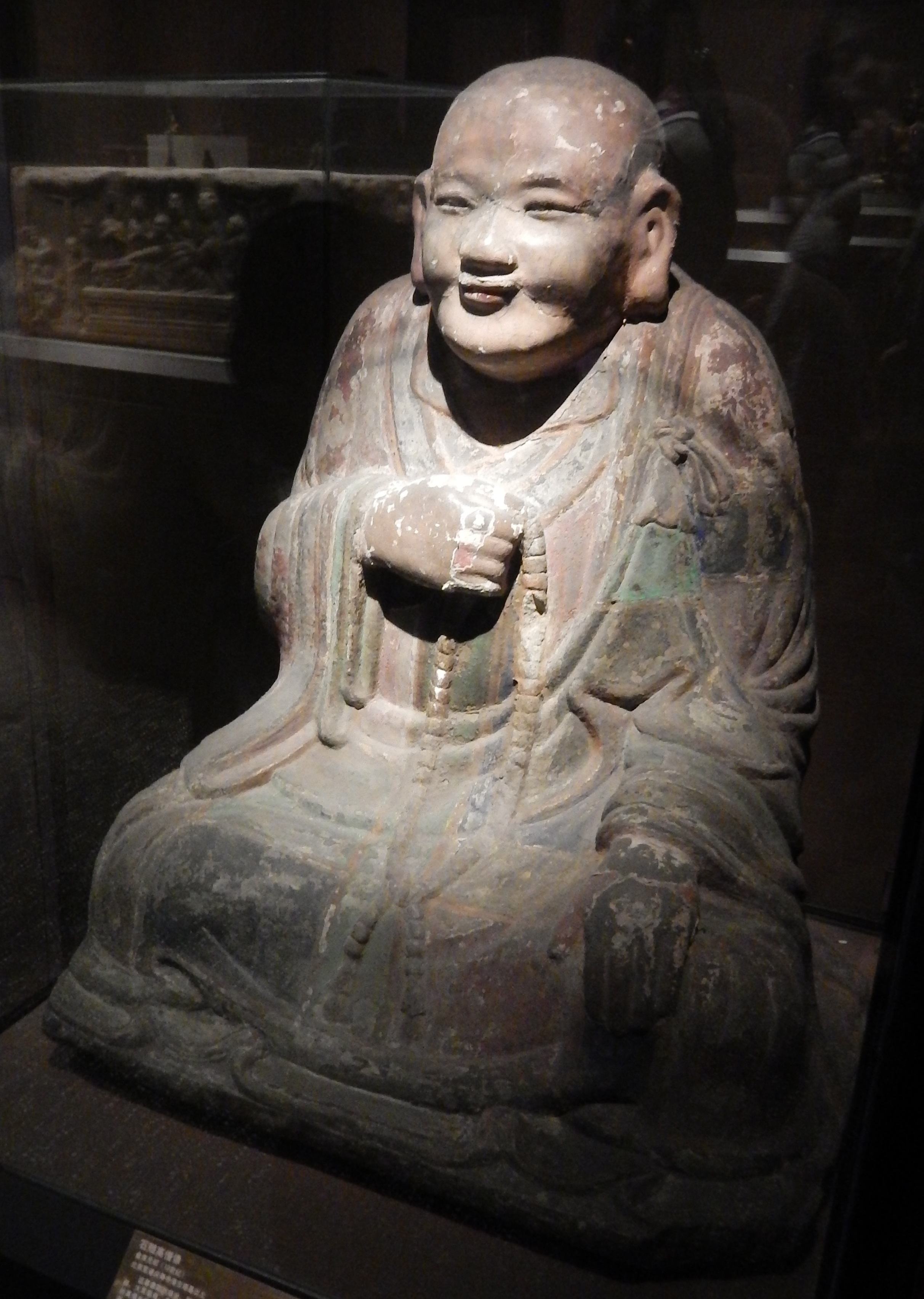 Stone statue of the eminent Chan monk Haiyun 海雲 (1203-1257), found in the underground hall of the Haiyun Pagoda of Qingshou Temple 慶壽寺 in Beijing when it was demolished in 1954. Mongol-Yuan dynasty (1206–1368). Held at the Capital Museum, Beijing.